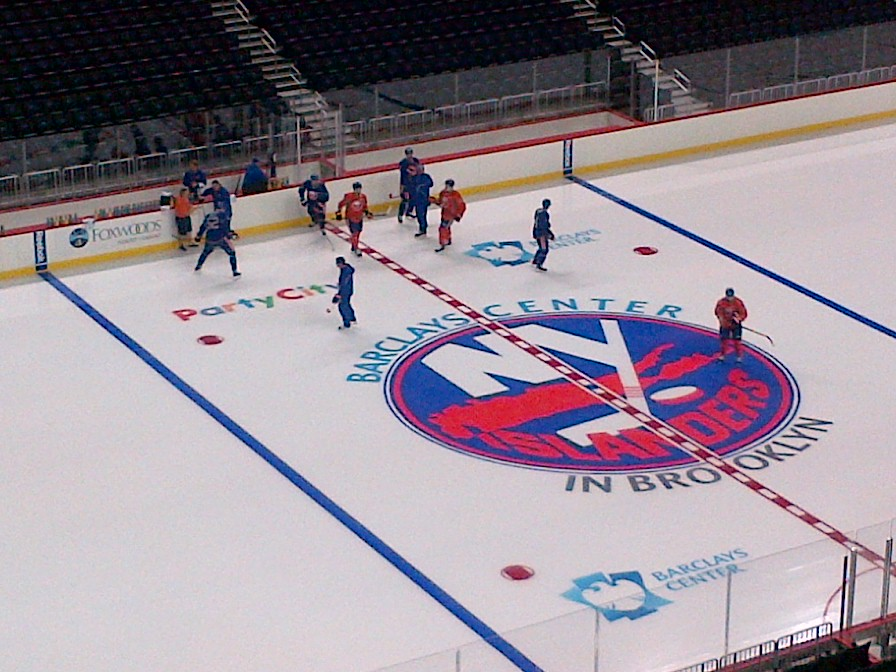 On September 12, 2013, the New York Islanders traveled to Barclays Center aboard the Long Island Rail Road. The Islanders are slated to begin playing at the Barclays Center, located in downtown Brooklyn directly across the street from the LIRR's hub at Atlantic Terminal, beginning in 2015. Photo: MTA Long Island Rail Road